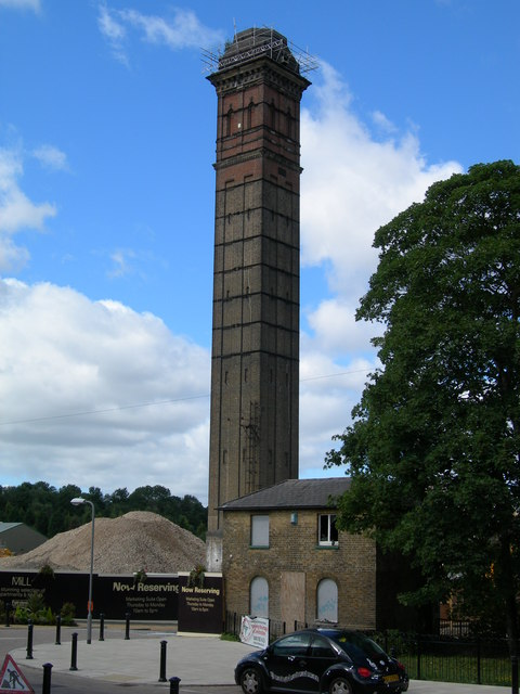 Chimney, South Darenth This was part of the Horton Kirby paper mill. The mill has now been demolished and housing is being built on the site.